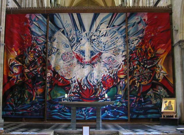 The Shrine of St Richard, in Chichester Cathedral, with tapestry designed by Ursula Benker-Schirmir. Altar designed by Robert Potter and icon of St Richard (bottom right) by Sergei Fyodorov. The Cathedral has some outstanding examples of contemporary craft, art and design within its interior. In Advent 2011 the area was refurnished with new candlesticks and other furniture.